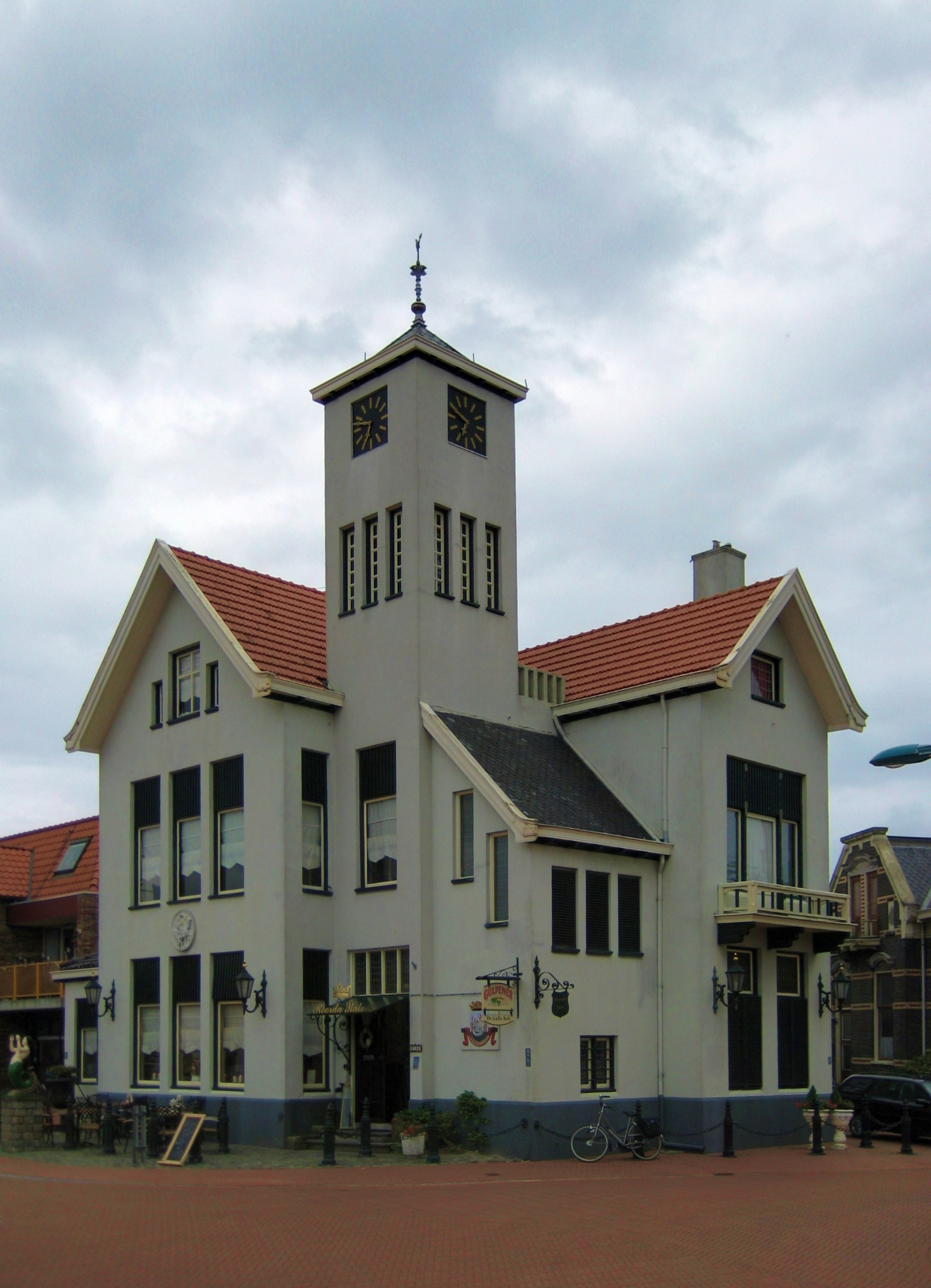 The former town hall (1908) of Uithuizermeeden, a village in the Dutch province of Groningen.